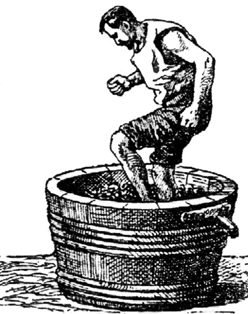 Grapes fulling XIXe